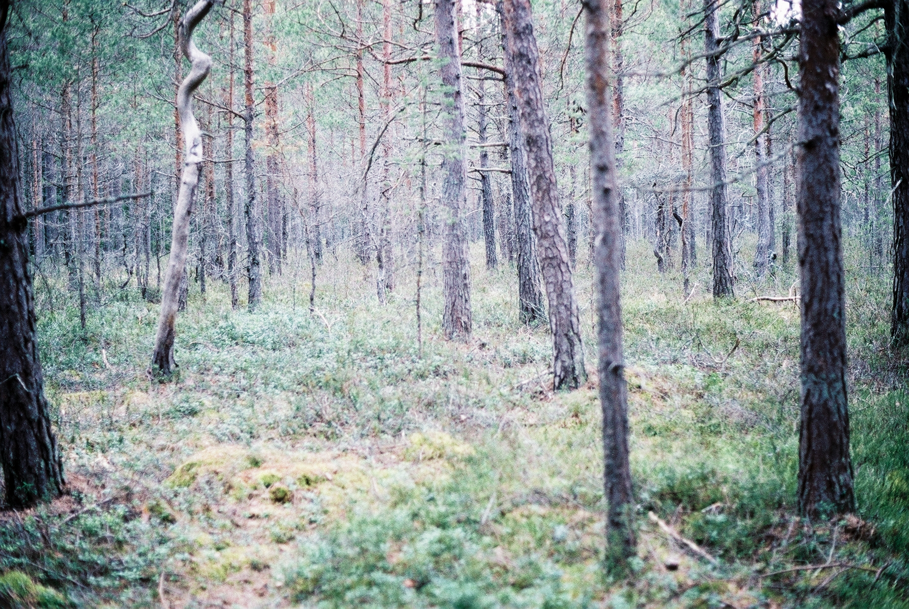 Ancient Forest at Ornö, Stockholm archipelago